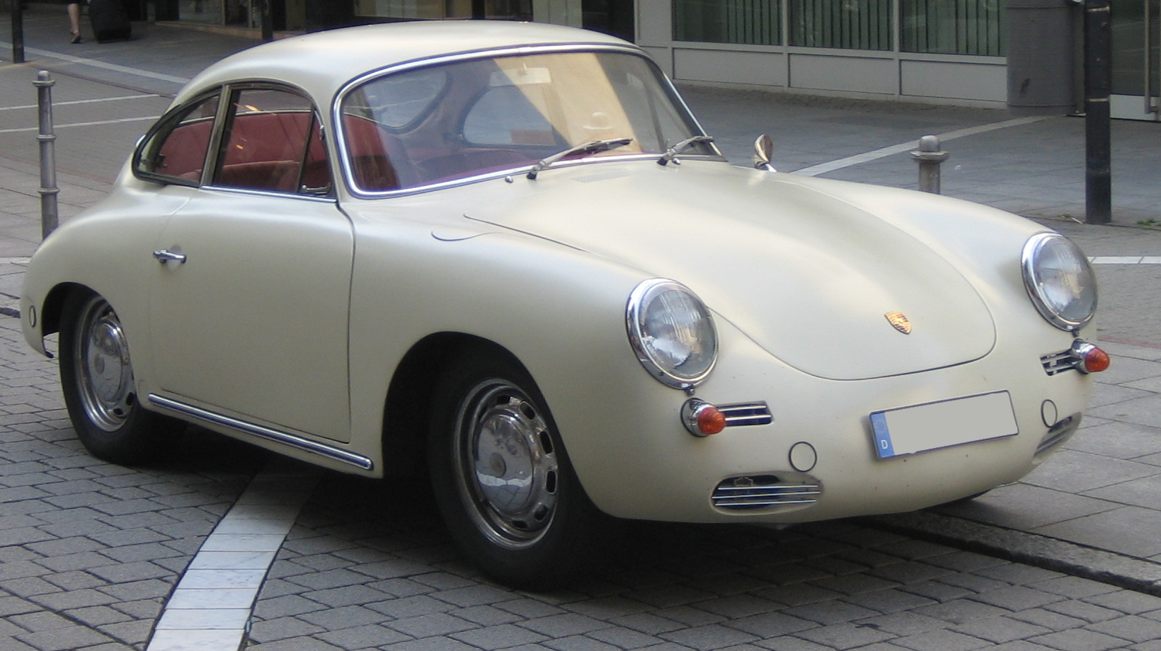 Porsche 356 C - Coupe (without bumpers)